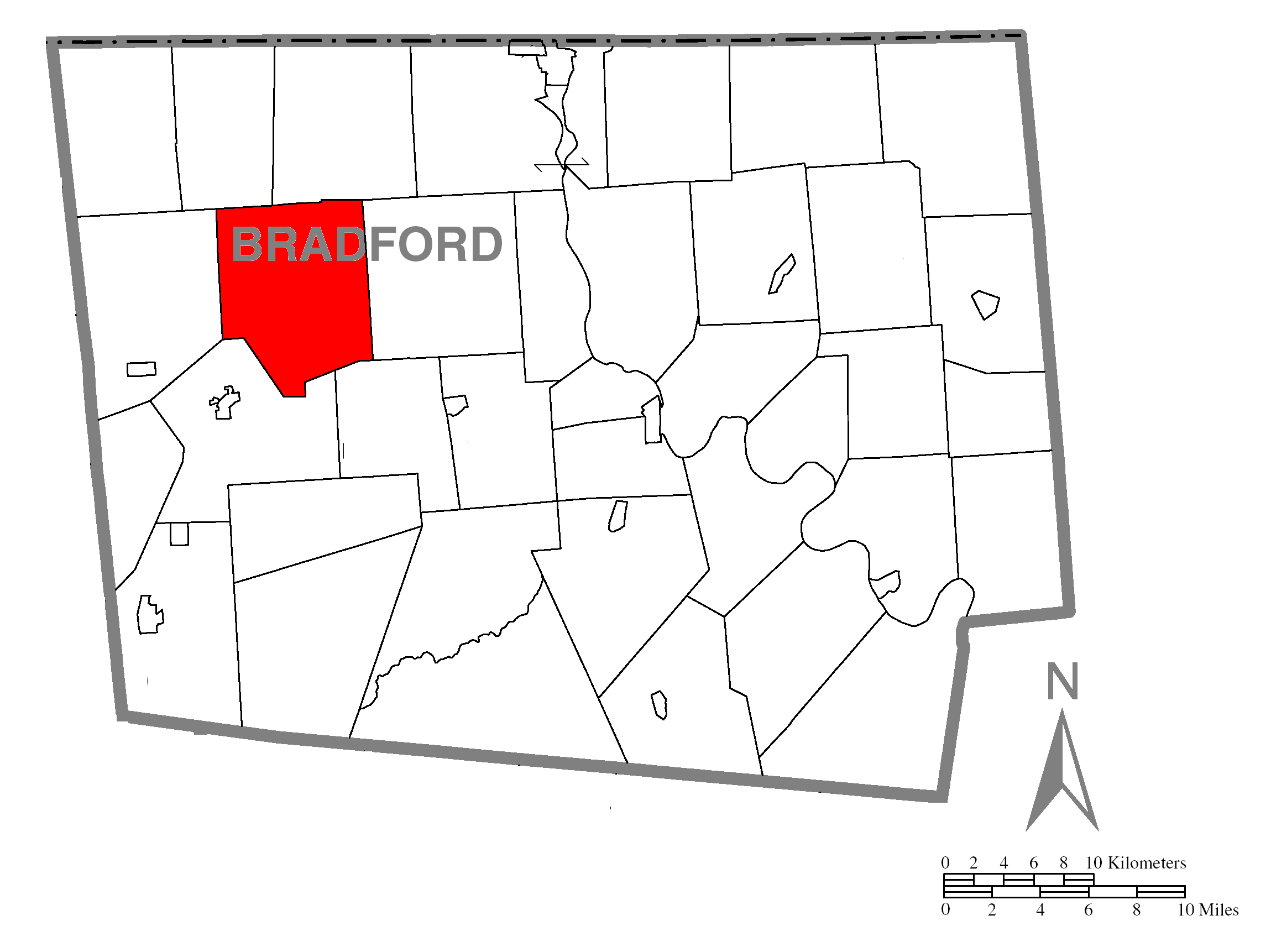 A map of Bradford County showing Springfield Township, Pennsylvania (alternate) highlighted on the map.